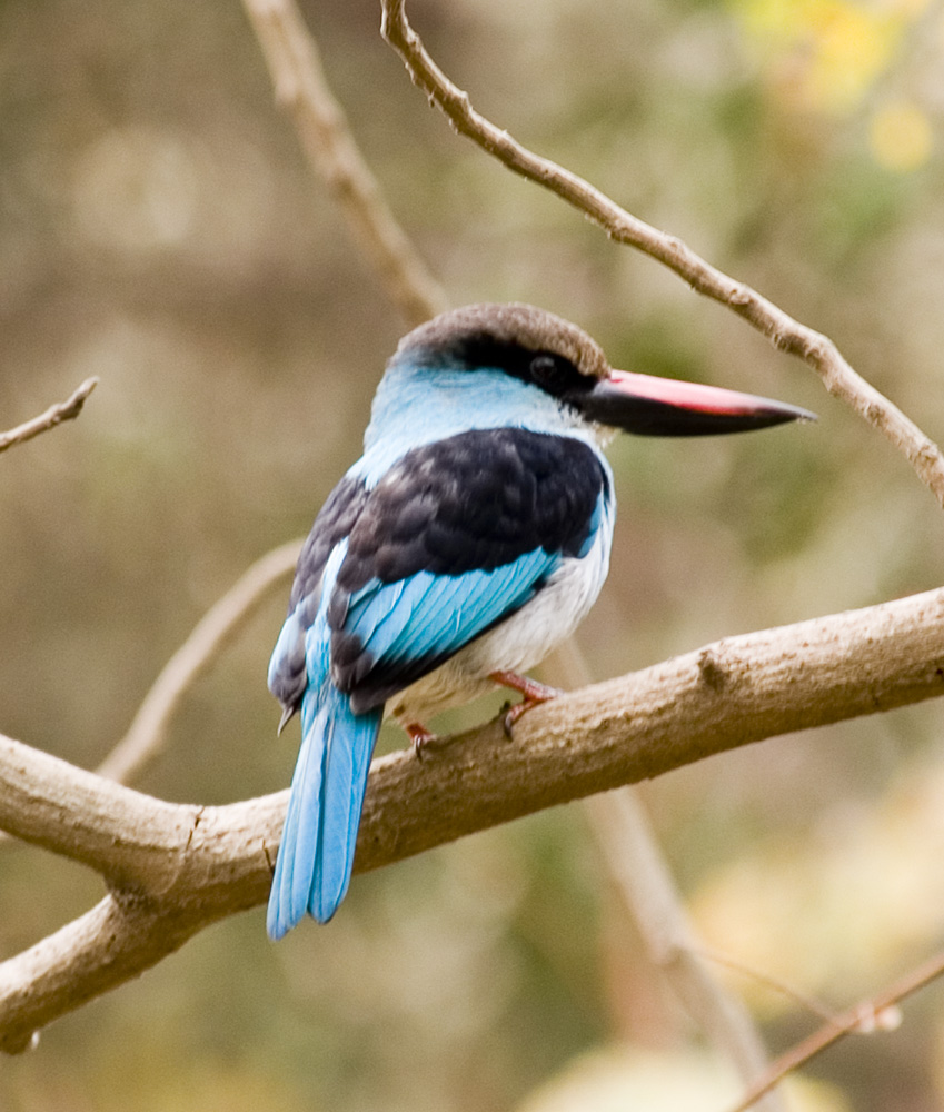 Blue-breasted Kingfisher Halcyon malimbica, Parc Forestier et Zoologique de Hann, Dakar, Senegal